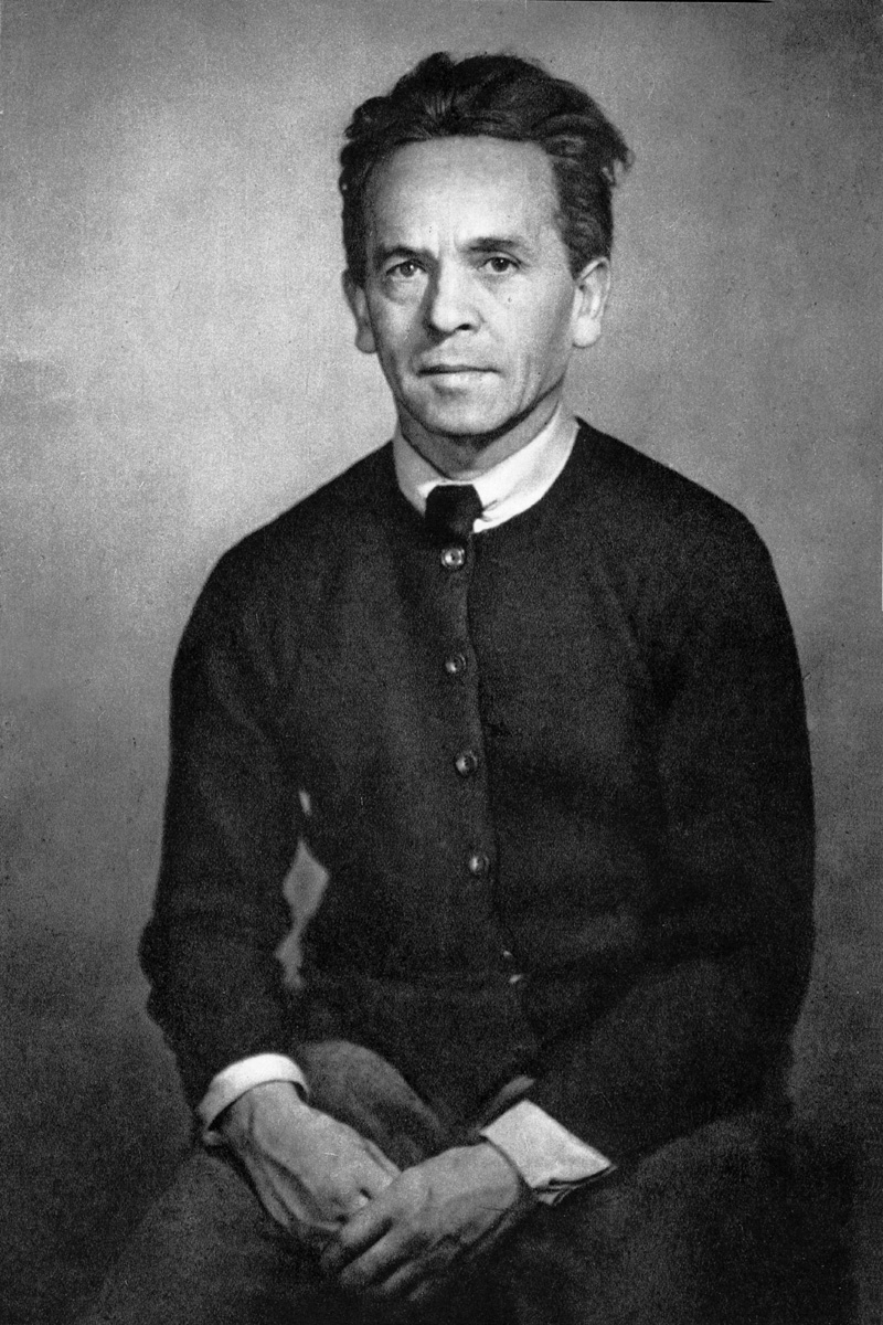 Tadeusz Kulisiewicz, Polish painter